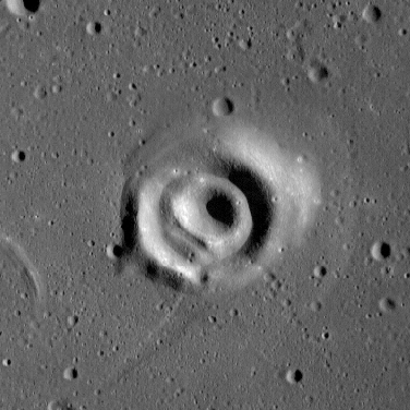 Concentric crater Marth on the Moon, in Palus Epidemiarum. Its diameter is 7 km. The volcanic dome, where it is located, is slightly seen (very low round elevation). One of rilles of Rimae Ramsden touches the southern rim of the crater. Marth is number 27 in the list of concentric craters by Wood, 1978. Photo by Lunar Reconnaissance Orbiter, made with Wide Angle Camera on 6 December 2011 from altitude 34 km. Sun elevation is 14.4°. Width of the photo is 20 km, north is approximately up.